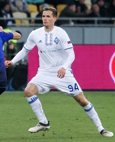 Tomasz Kędziora